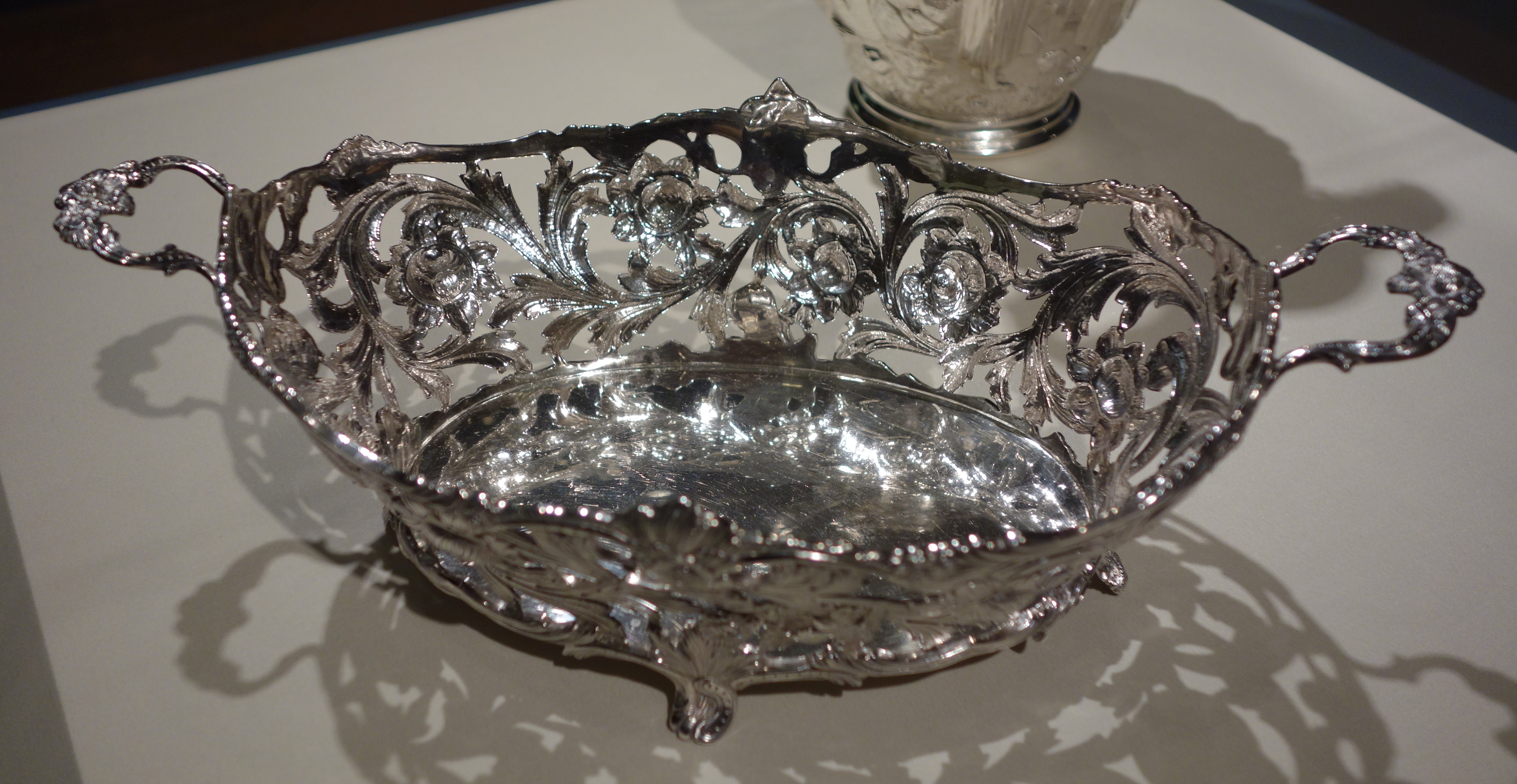 Exhibit in the Cincinnati Art Museum, Cincinnati, Ohio, USA. This artwork is in the public domain because the artist died more than 70 years ago.